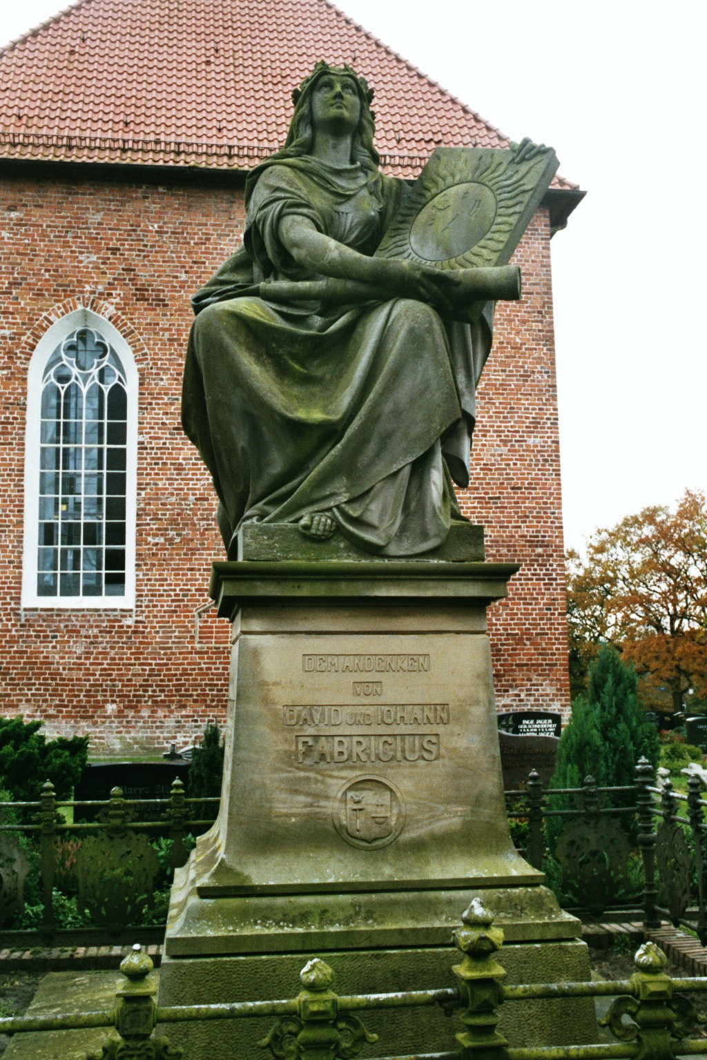 Monument for astronomers David and Johann Fabricius on the churchyard at Osteel (Germany).